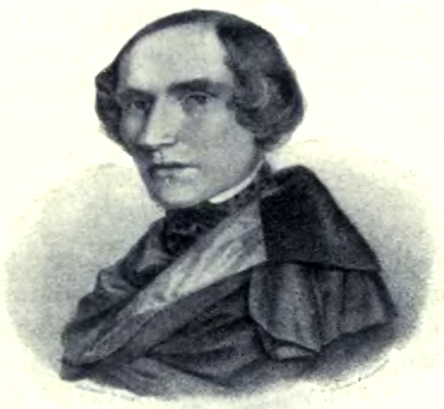 Isidor Dannström. After a drawing by J. V. Wallander. Image from Nils Personne: Svenska Teatern VIII (1927).